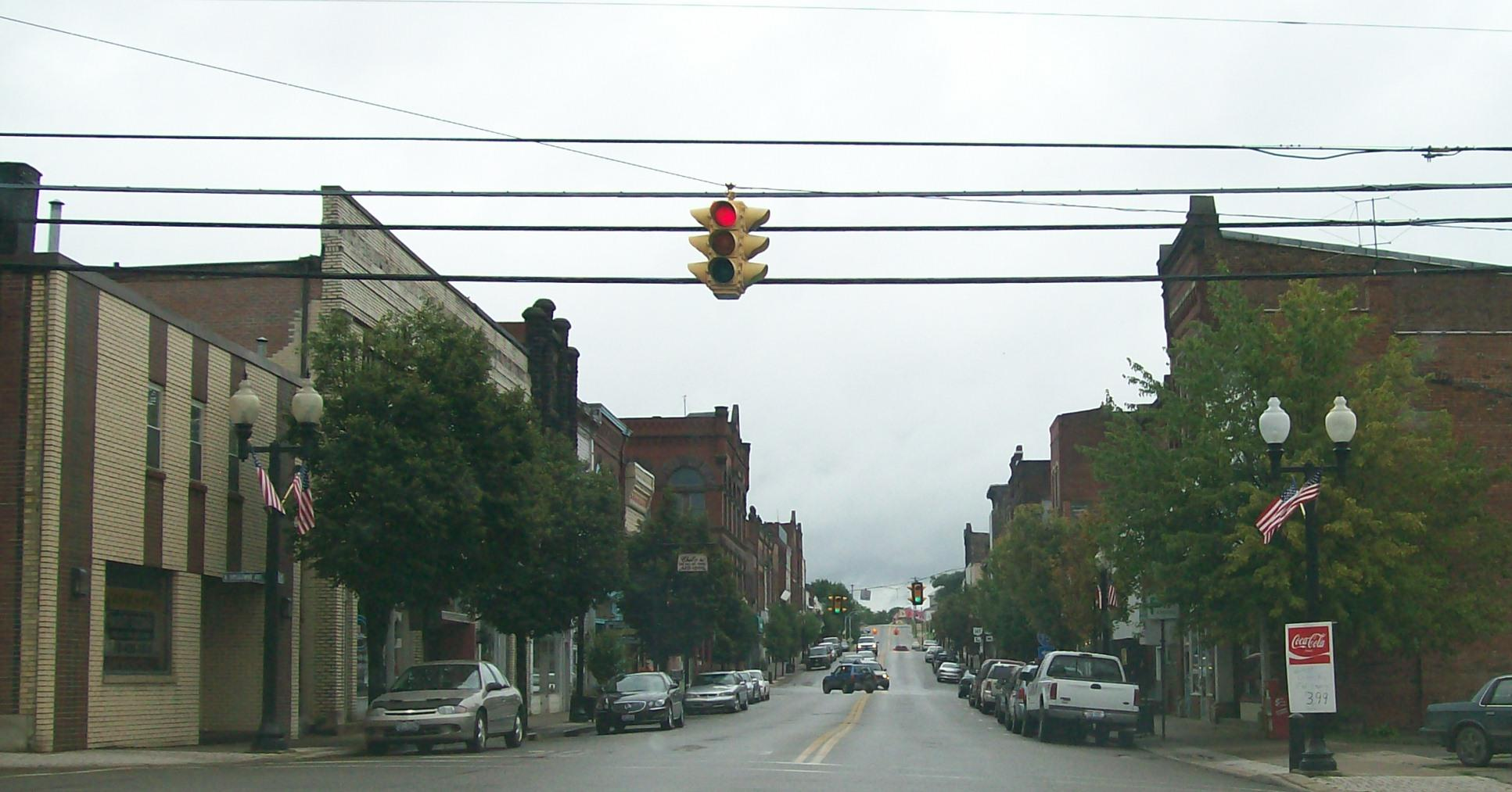 Downtown Barnesville looking East